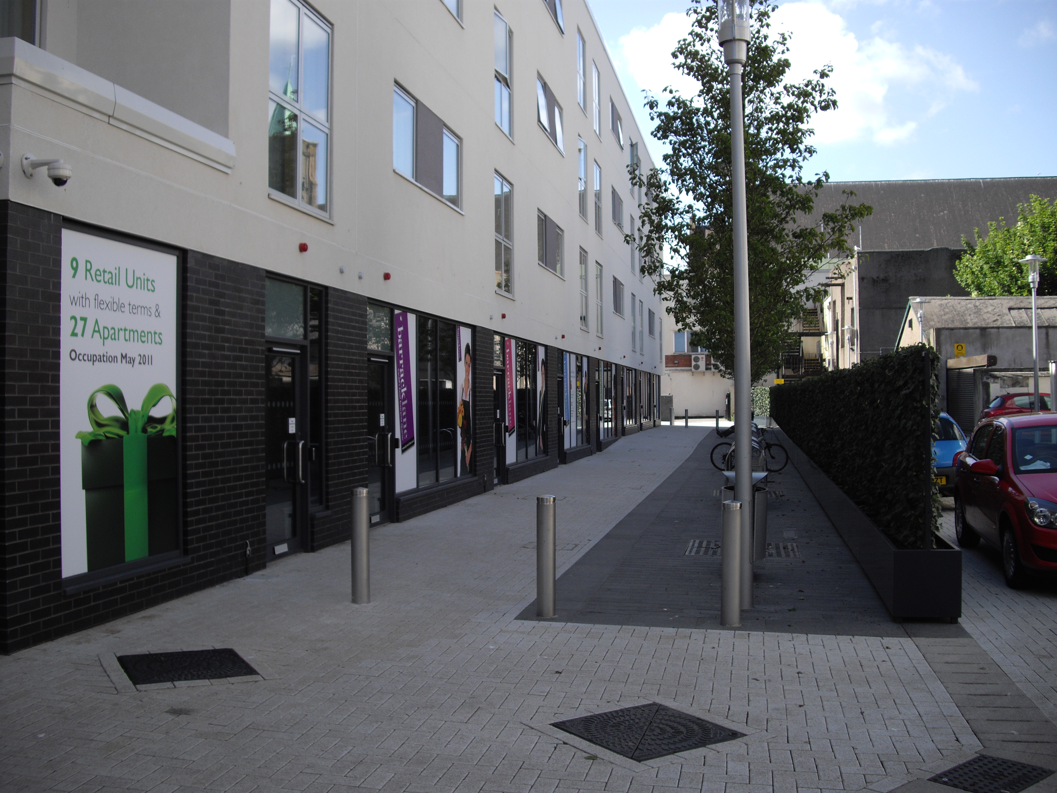 Walkway, St David's Centre, Cardiff, Wales